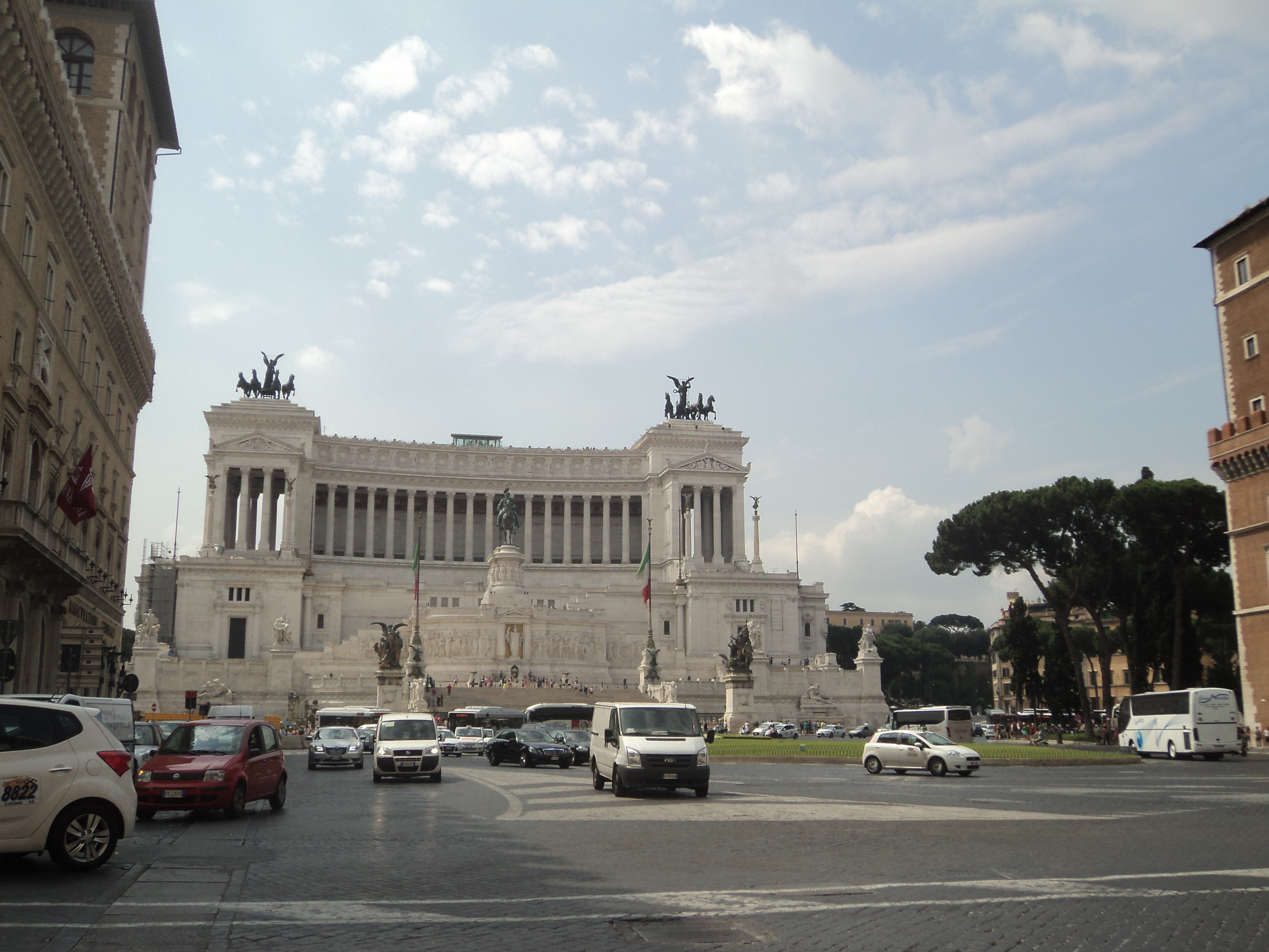 Monument to Victor Emmanuel II (Rome)